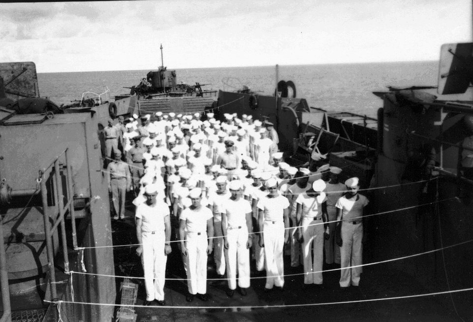 LST-504 standing at inspection, between Guam and Saipan, date unknown.